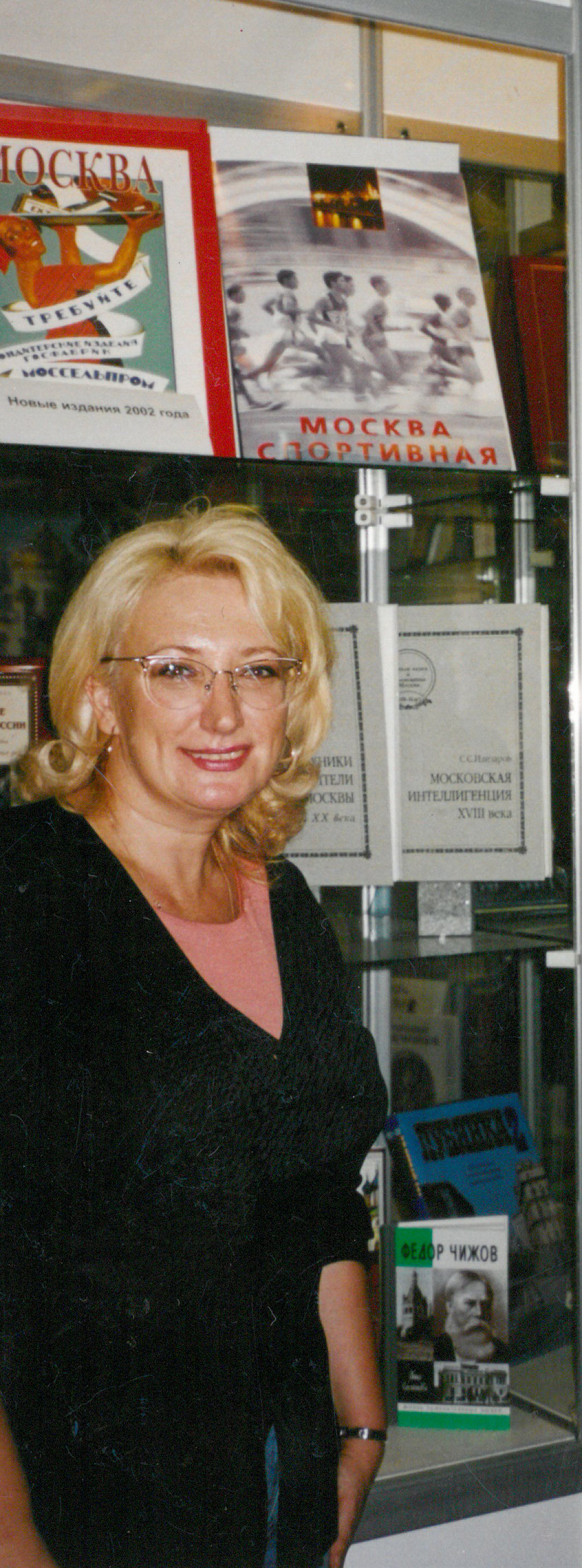 Author Inna Simonova at Moscow Book Fair during presentation of her book "Fedor Chizhov"